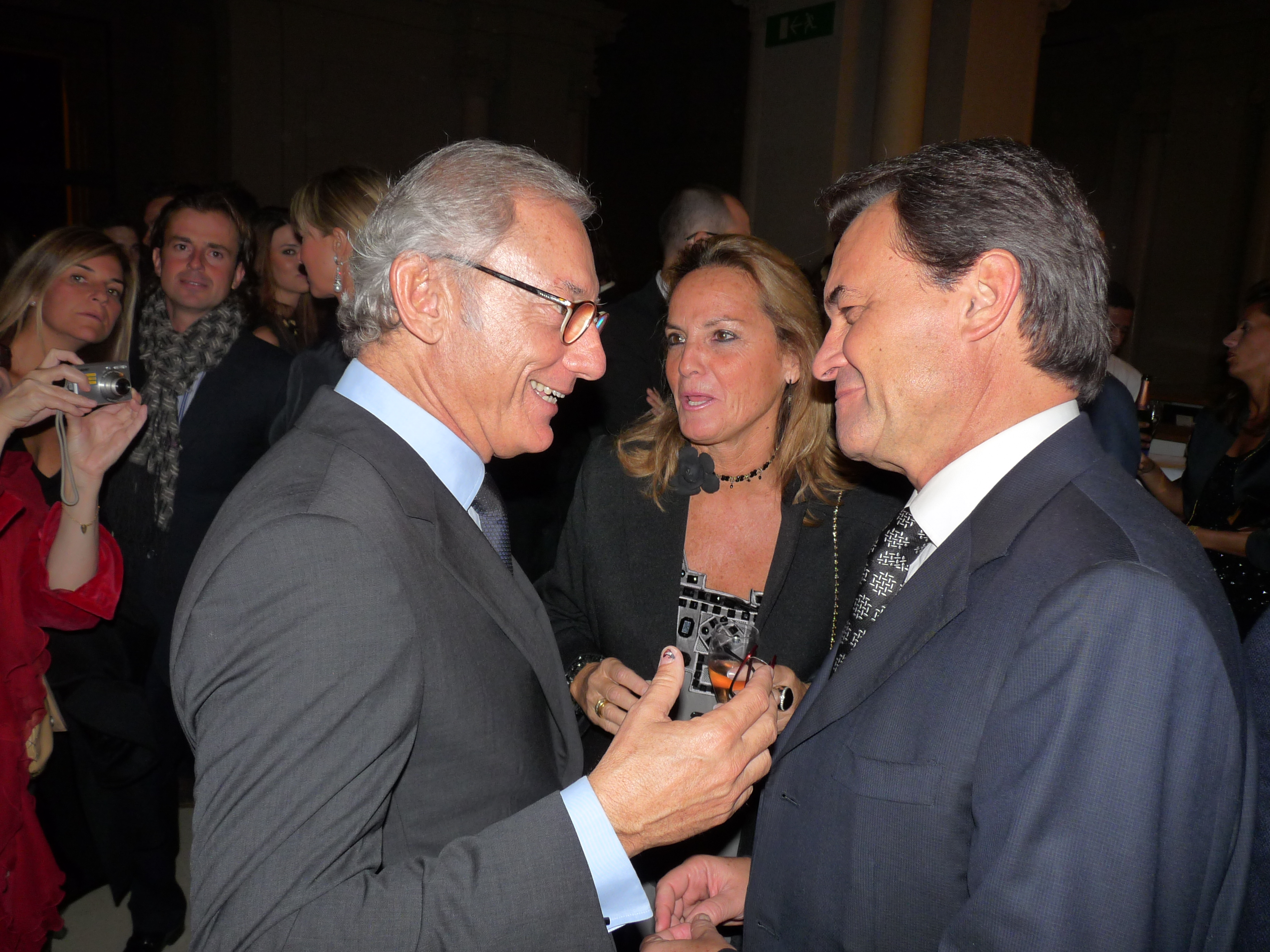 Left to right: Isak Andic, president of Mango clothing stores, Helena Rakosnik, and Artur Mas at the Mango Fashion Awards in Barcelona (2010)